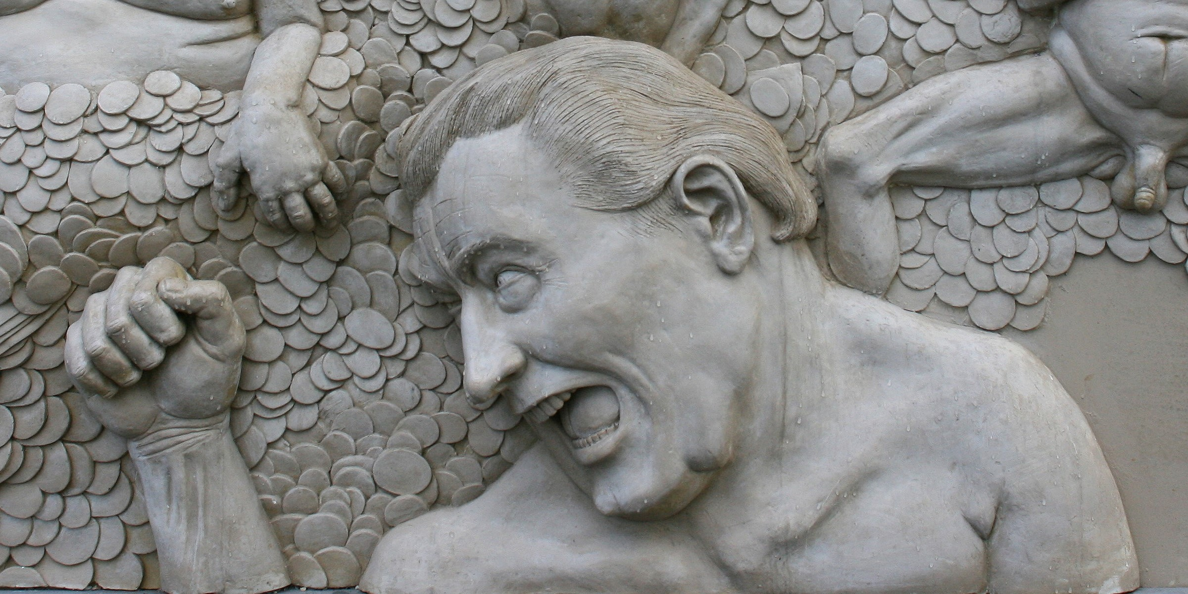 Relief “Ludwigs Erbe” by Peter Lenk, close to Zollhaus and tourist information, Hafenstraße 5, Ludwigshafen am Bodensee, Bodman-Ludwigshafen in Germany: Right-hand part of the triptych: Leo Kirch